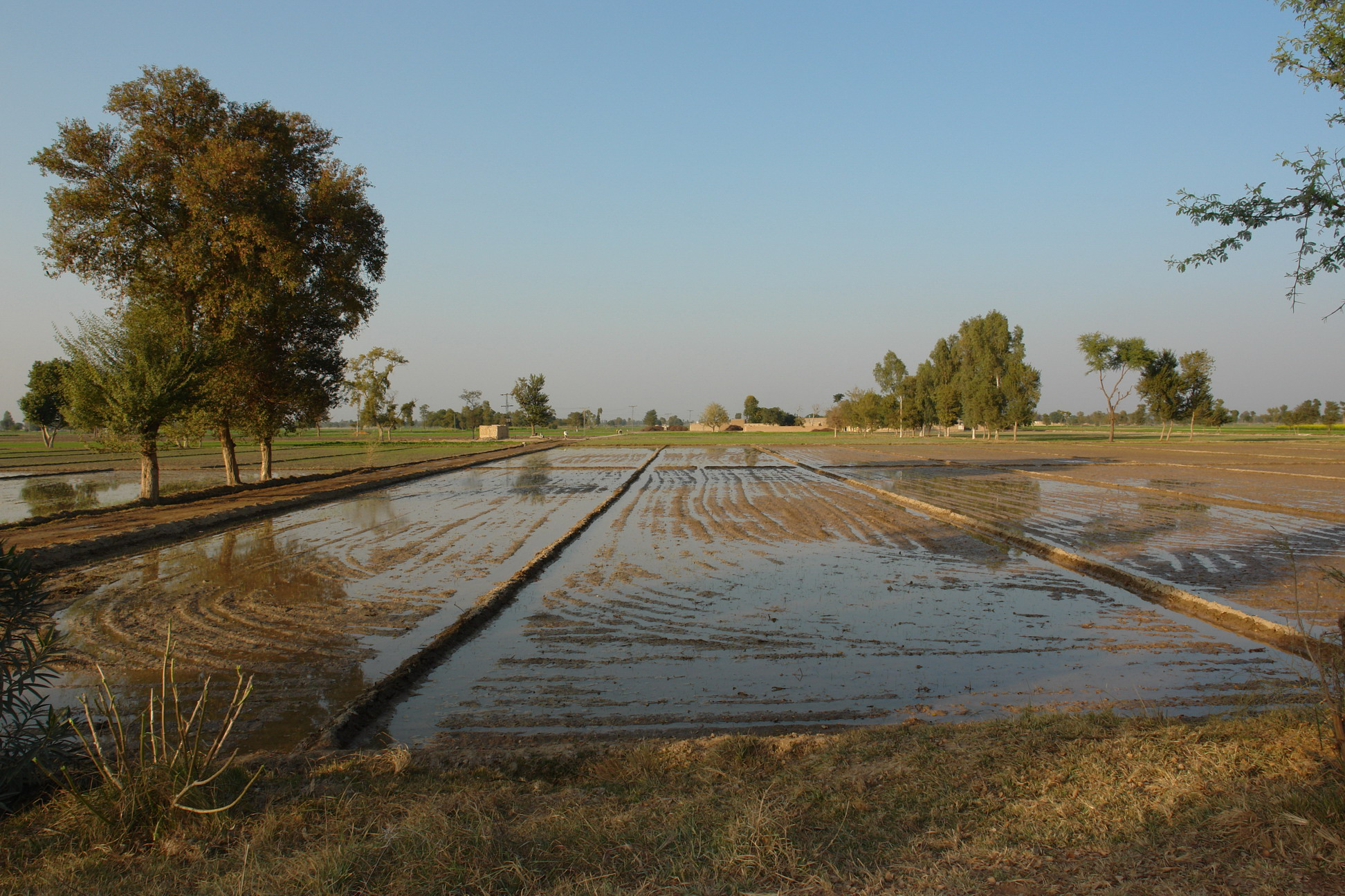 Ammar, India.